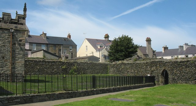 Roman Wall around the site of St Cybi's Church The Roman Fort which stood on what later became the site of St Cybi's Church was built to keep the Irish out. In the 3rd & 4thC CE the western coastlands of Britain were subject to attack by Irish raiders.